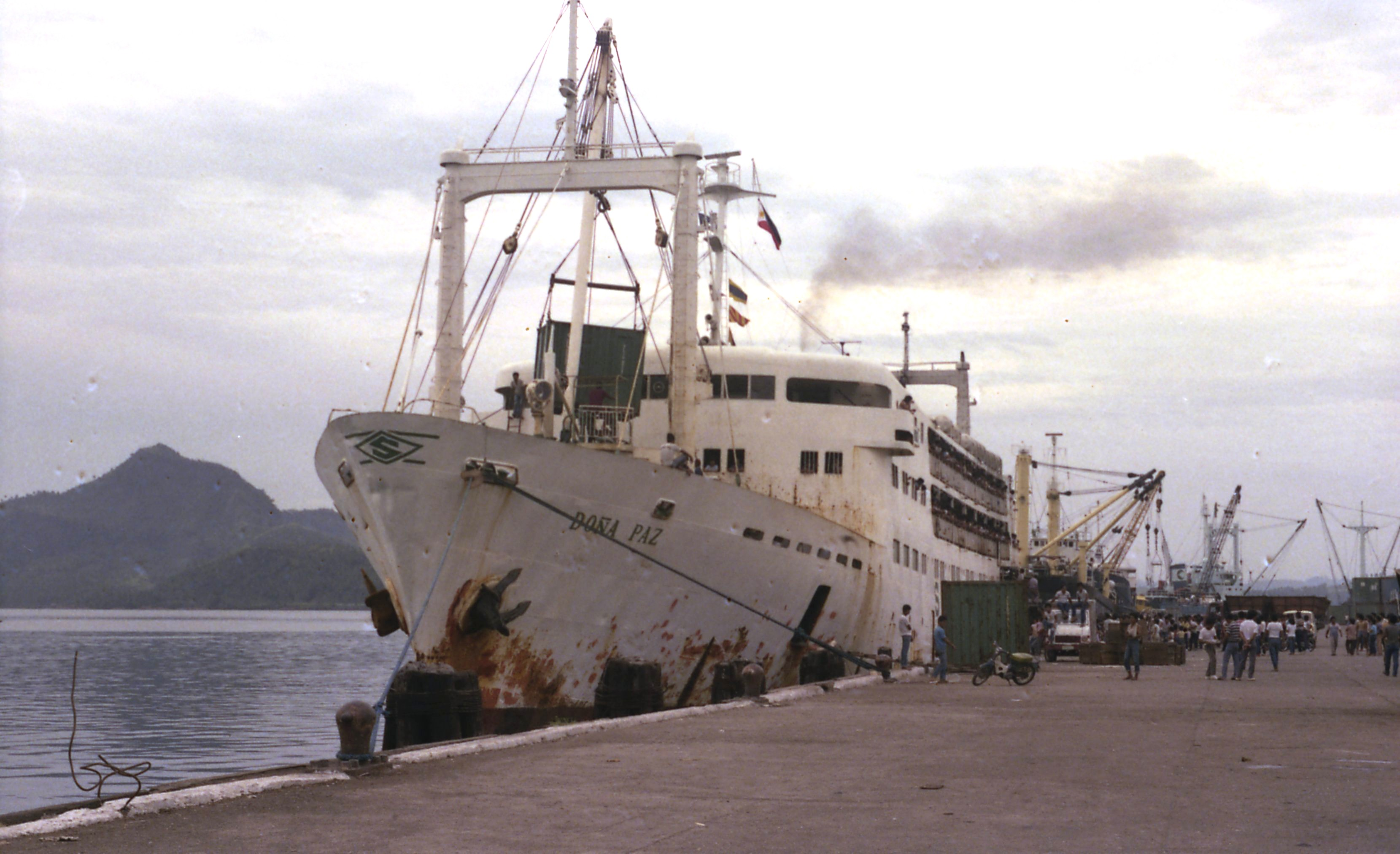 Built in 1963 MV Dona Paz passenger ferry sank on 20 December 1987 when collided with MT Vector, considered the worst Philippines inter-island shipping accident through loss of over 4000 lives. R.I.P.. Photo taken in Tacloban City, Eastern Visayas, Philippines (according to Flickr data)